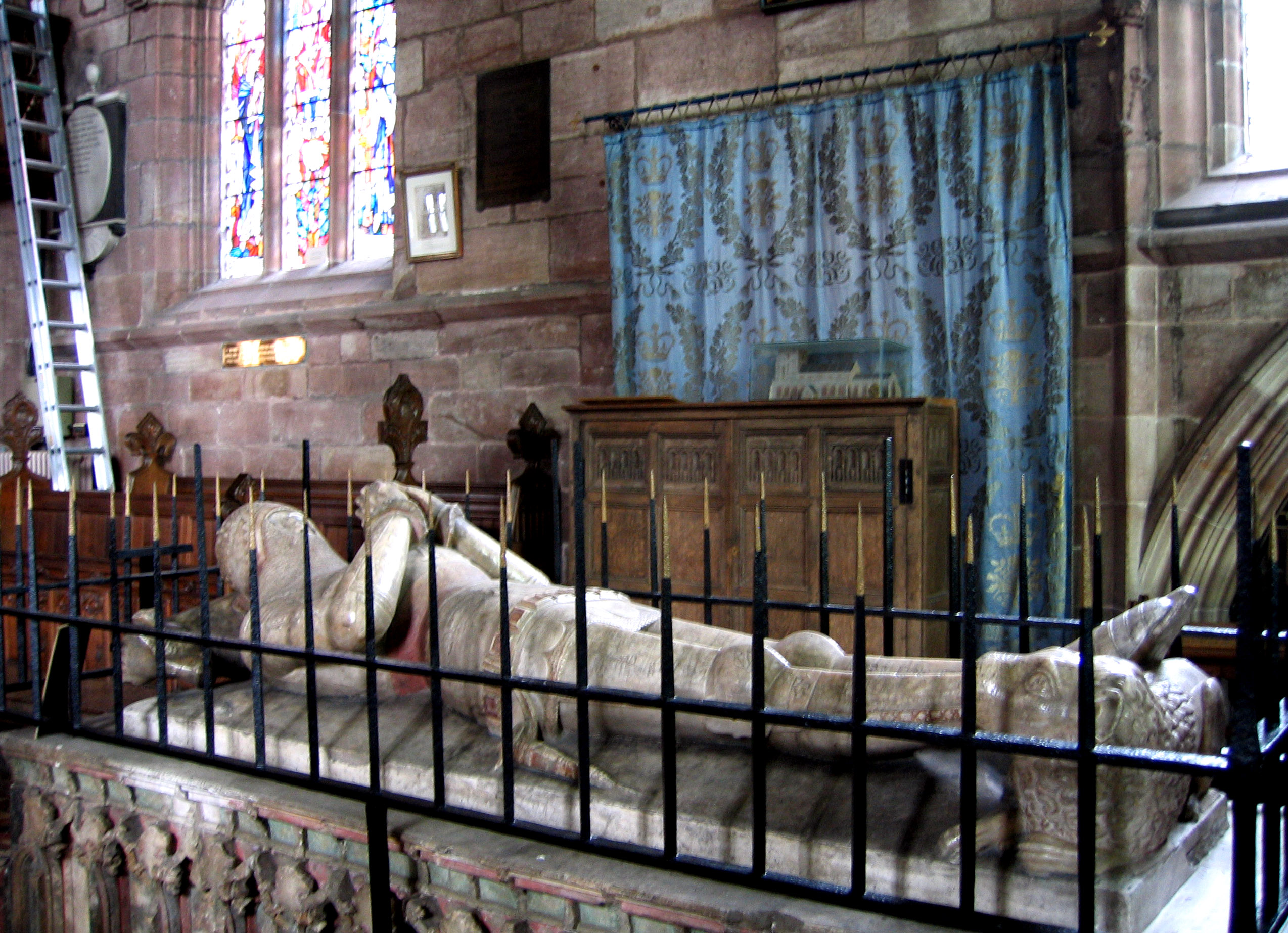 Tomb effigy of Sir Hugh Calveley (died 1394) in St Boniface's parish church, Bunbury, Cheshire, England